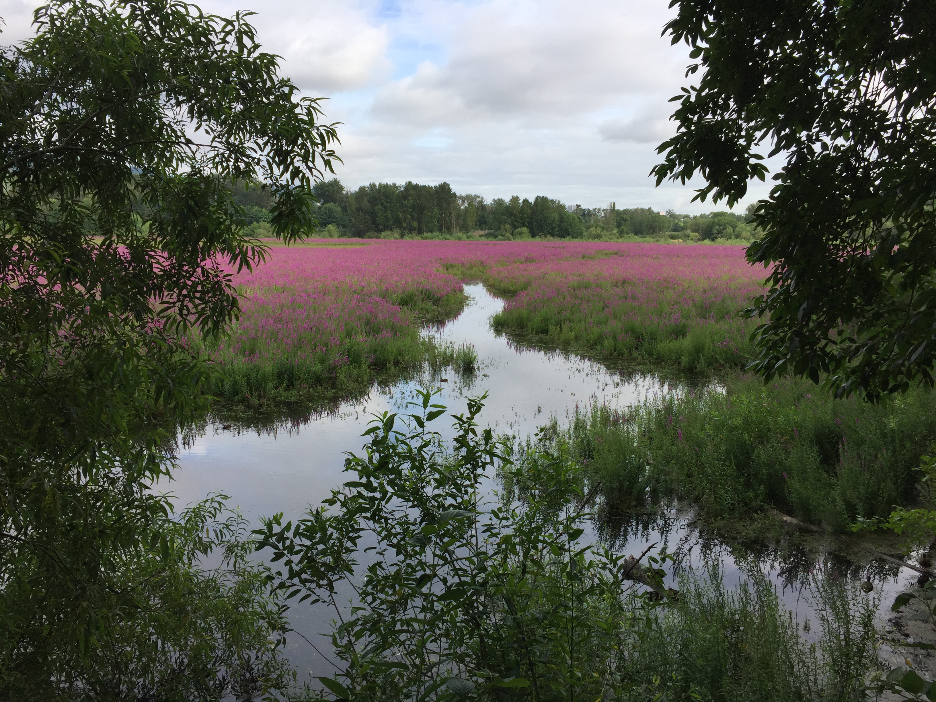 Oaks Bottom wetlands in summer